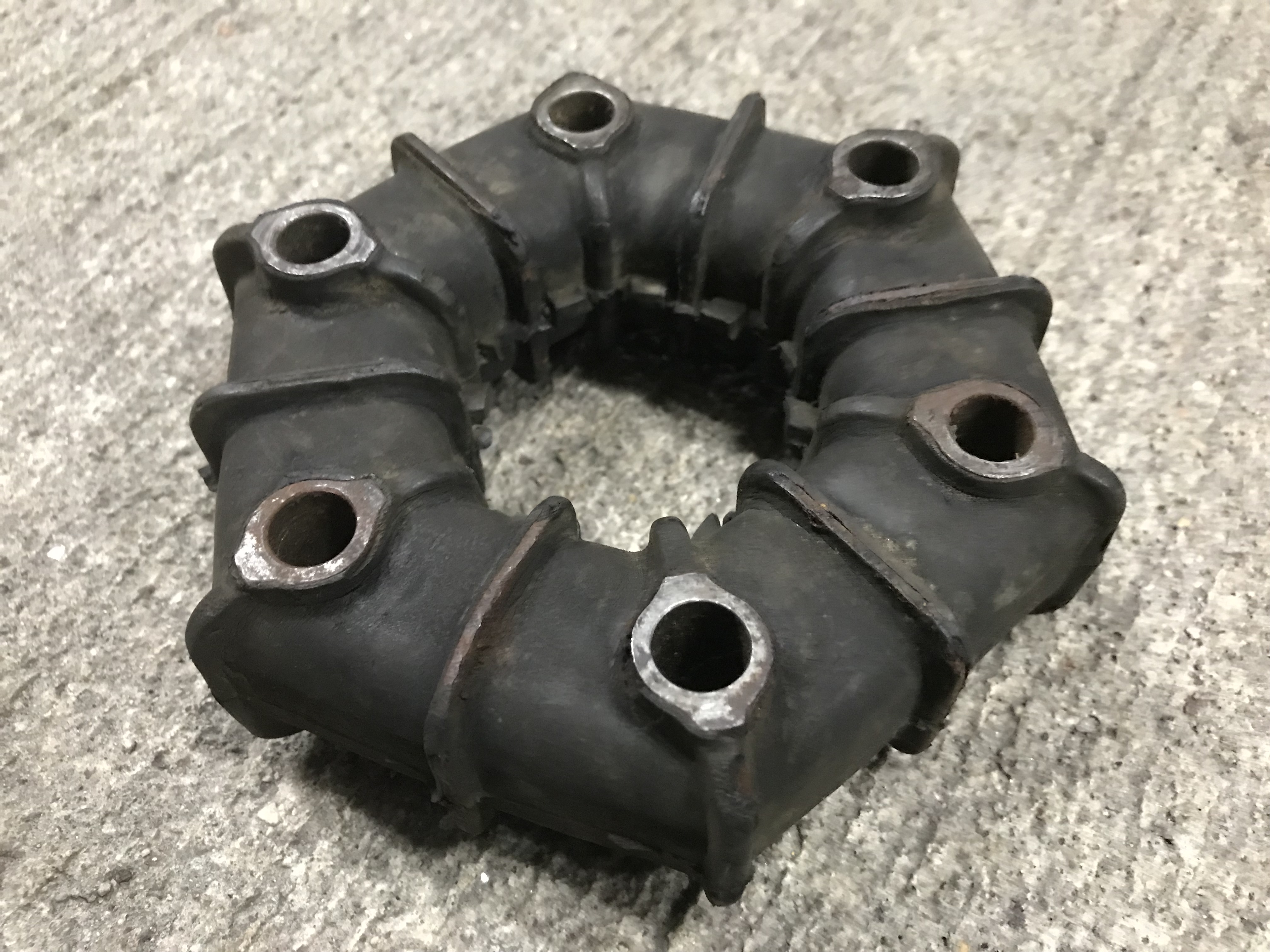 Rotoflex drive coupling. Typical use: Automotive driveline (e.g. Ford GT40, Lotus Elan, Triumph GT6)